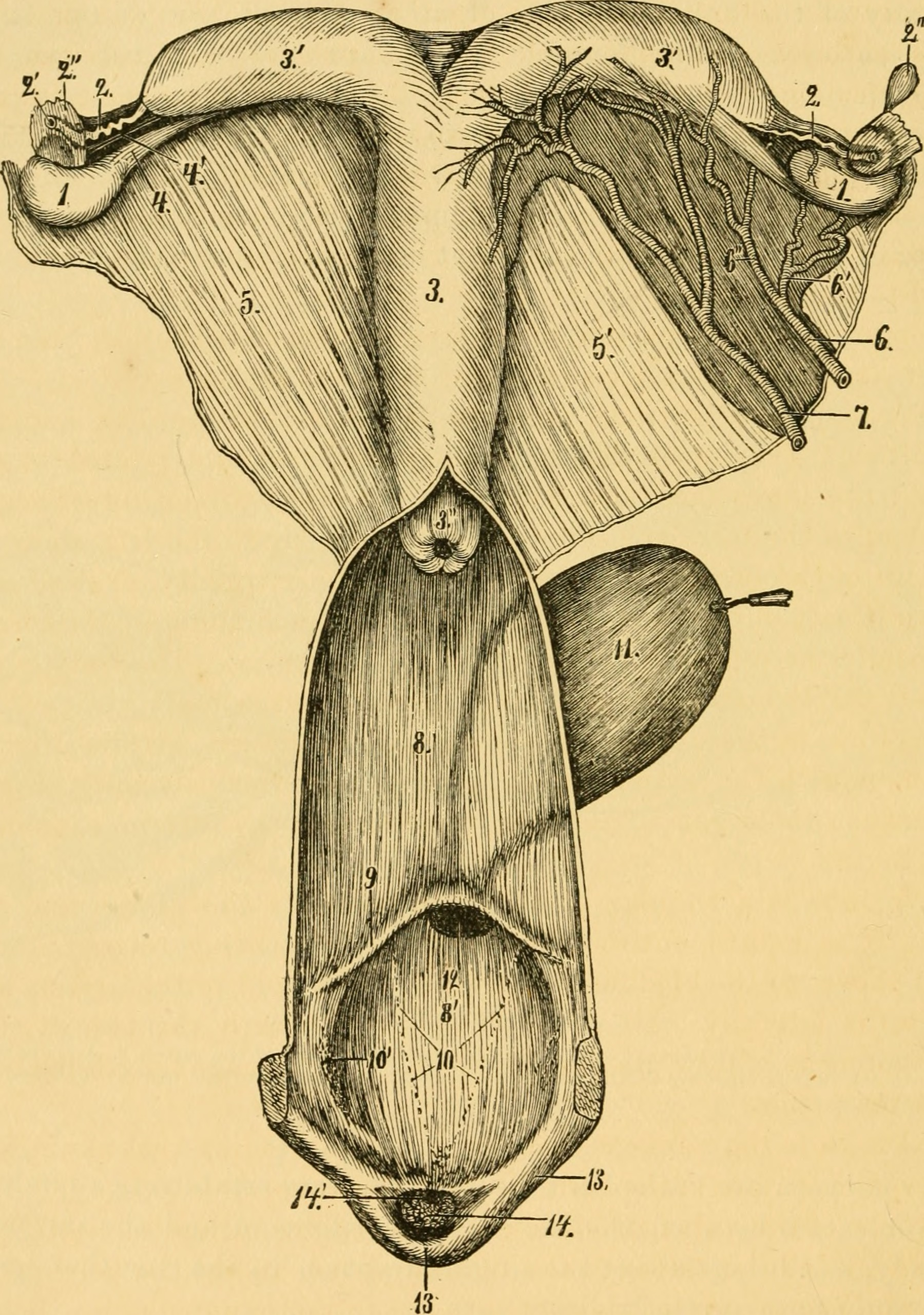 Title: The anatomy of the horse : a dissection guide Year: 1922 (1920s) Authors: McFadyean, John, Sir, 1853-1941 Subjects: Horses; Horses -- Anatomy Publisher: Edinburgh : Johnston Text Appearing Before Image: 368 THE ANATOMY OF THE HORSE. The Uterus, or womb, is the organ that receives the ovum, retains it during its development (provided it has been fertilised), and, finally, Text Appearing After Image: Fig. 53. Generative Organs of the Mare, viewed from above (Leisering and Milller). I '1. Ovary; 2. Fallopian tube ; 2'. Its abdominal opening; 2". Mucous surface of the same spread •out; 2'". A cyst of Morgagni; 3. Body of the uterus ; 3'. Uterine horns ; 3". Neck of the uterus ; 4. Ligament of the ovary ; 4'. Ovarian pocket, between the broad ligament and the peritoneal fold that includes the ligament of the ovary; 5. Uterine broad ligament; 6. Ovarian artery; 6'. Its ovarian, and 6", its uterine branch ; 7. Uterine artery ; 8. Vagina; 8'. Vulva ; 9. Valve of the meatus urinarius ; 10 and 10'. Orifices of ducts of mucous glands ; 11. Urinary bladder; 12. Meatus urinarius; 13. Labia of the vulva; 13'. Inferior commissure of the vulva; 14. The clitoris; 14'. Small depression on the glans of the clitoris. expels it at the expiration of the full term of pregnancy. In situation the organ is partly abdominal, and partly pelvic, and its mode of